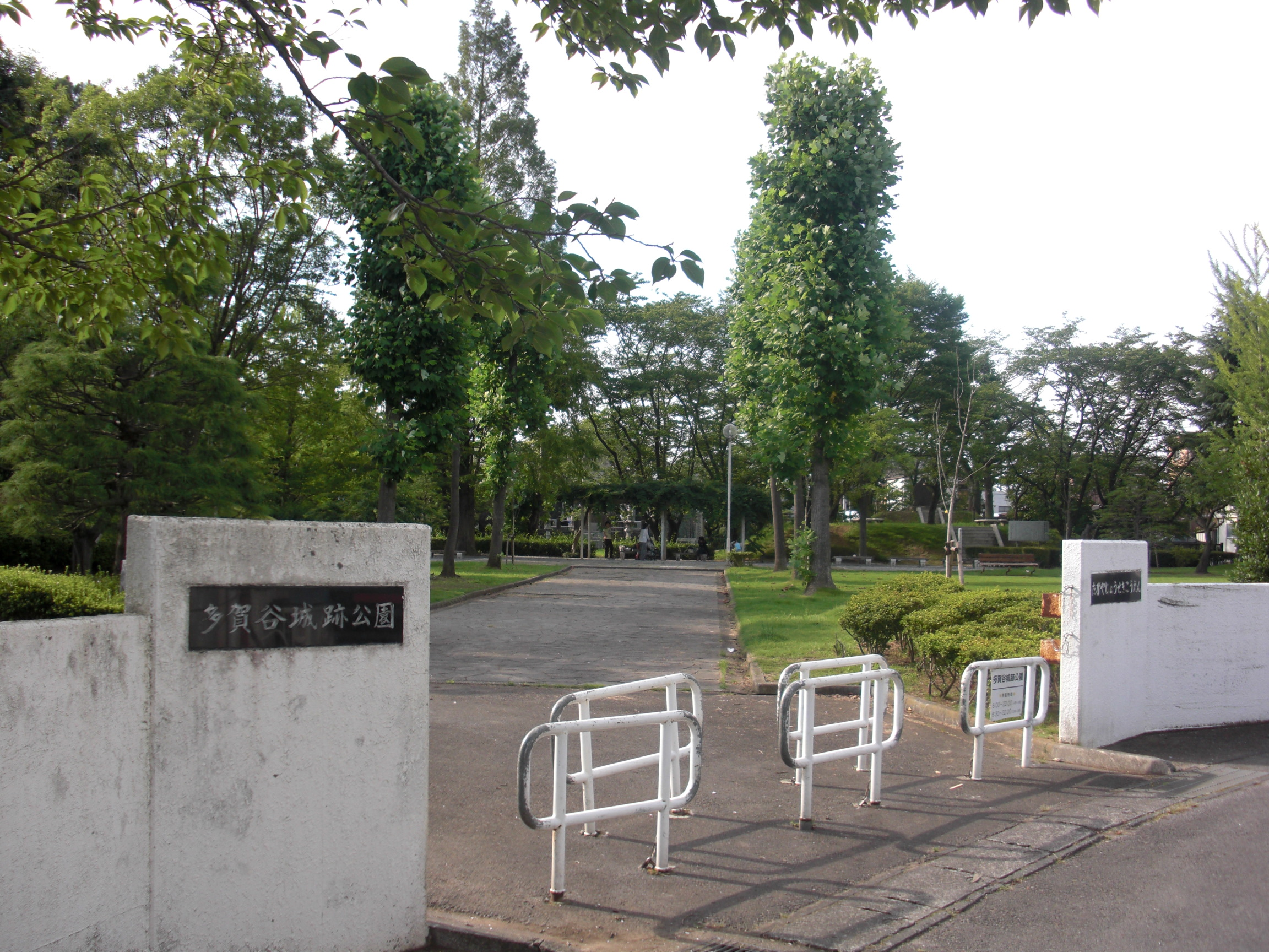 This is the Tagaya castle site in Shimotsuma, Ibaraki, Japan.